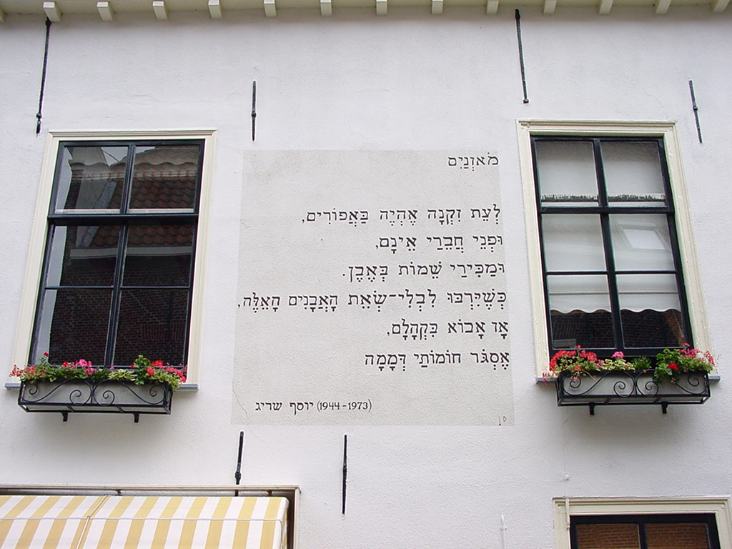 Wallpoem Scales by Josef Sarig in Leiden, the Netherlands